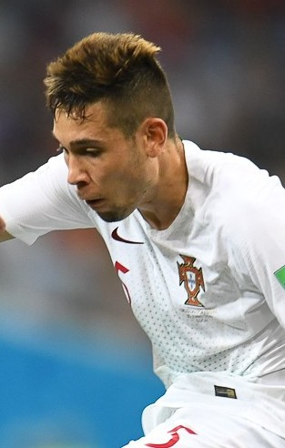 Raphaël Guerreiro